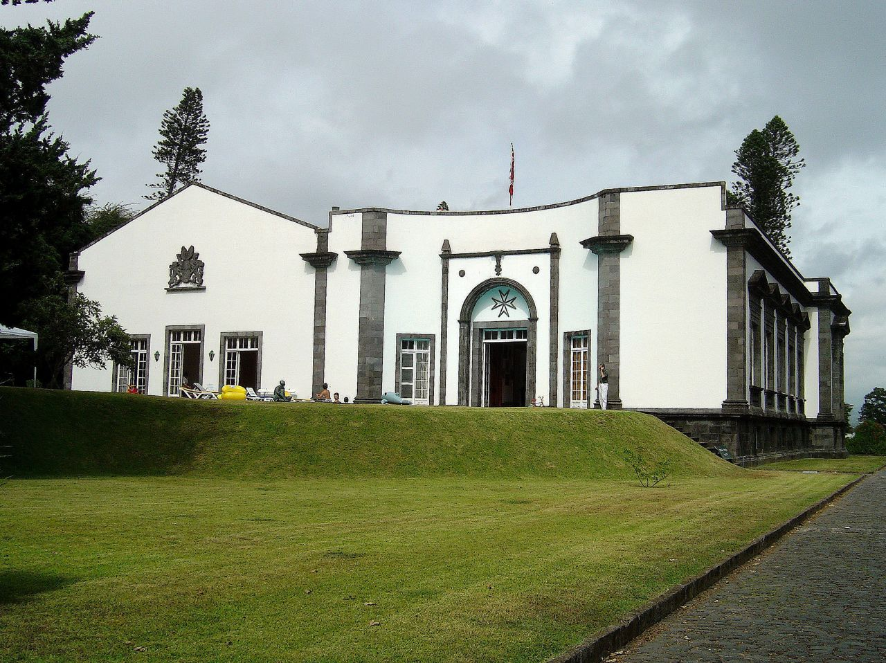 Ilha de S. Miguel See where this picture was taken. [?]